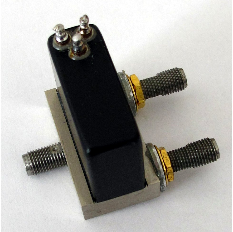 High frequency relais with SMA connectors.